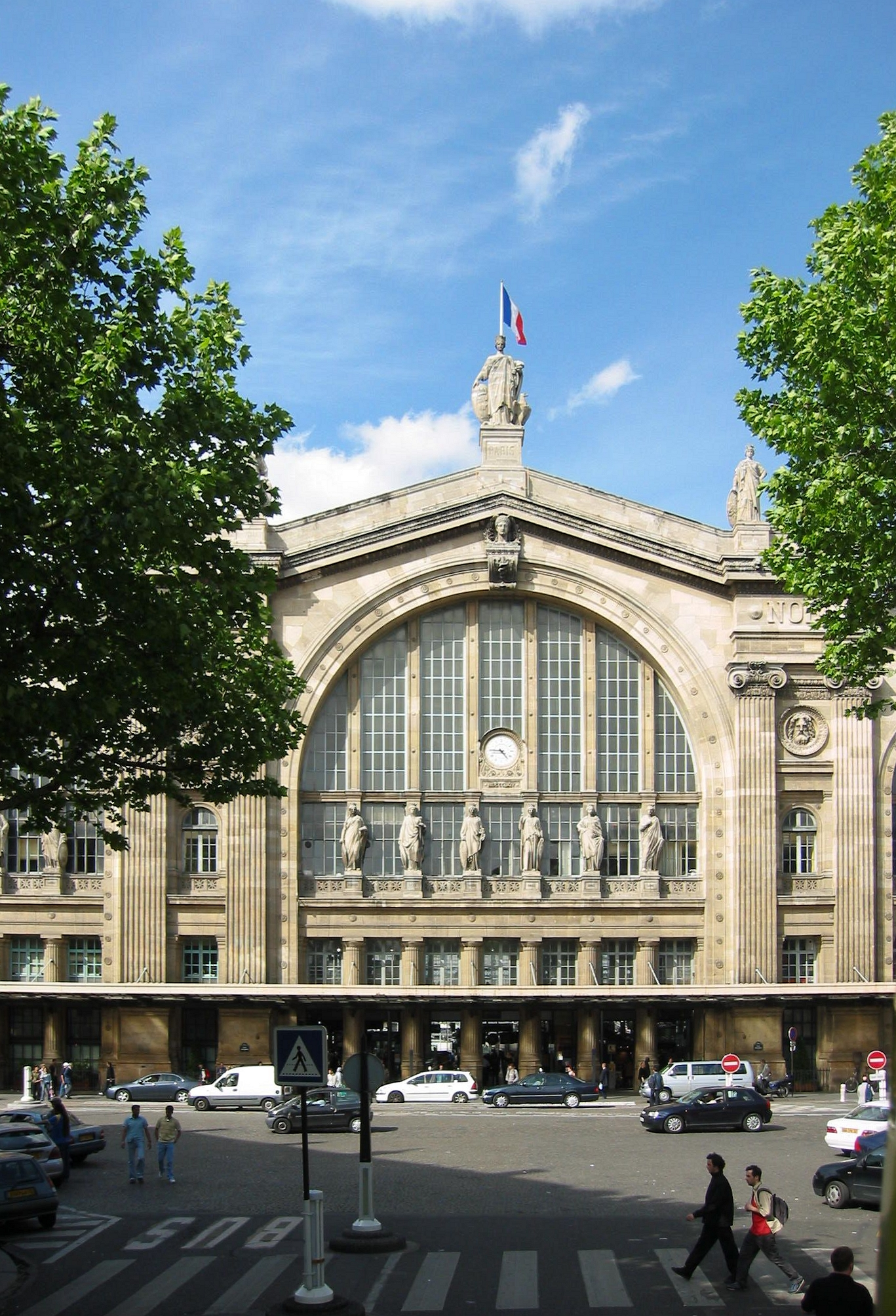 View of Gare du Nord from boulevard Denain, Paris.